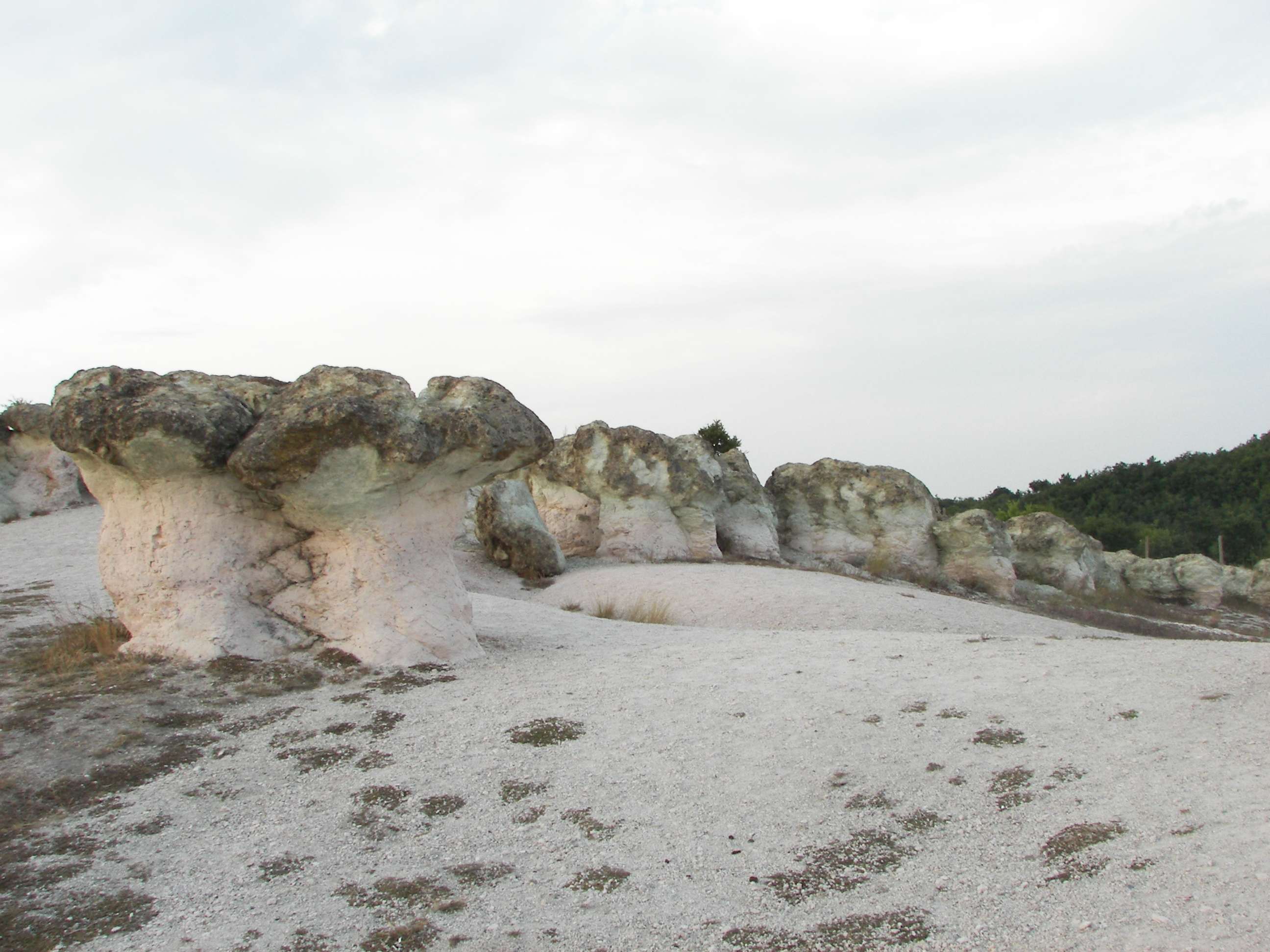 The natural landmark Kamennite gabi (Stone mushrooms) in Bulgaria.